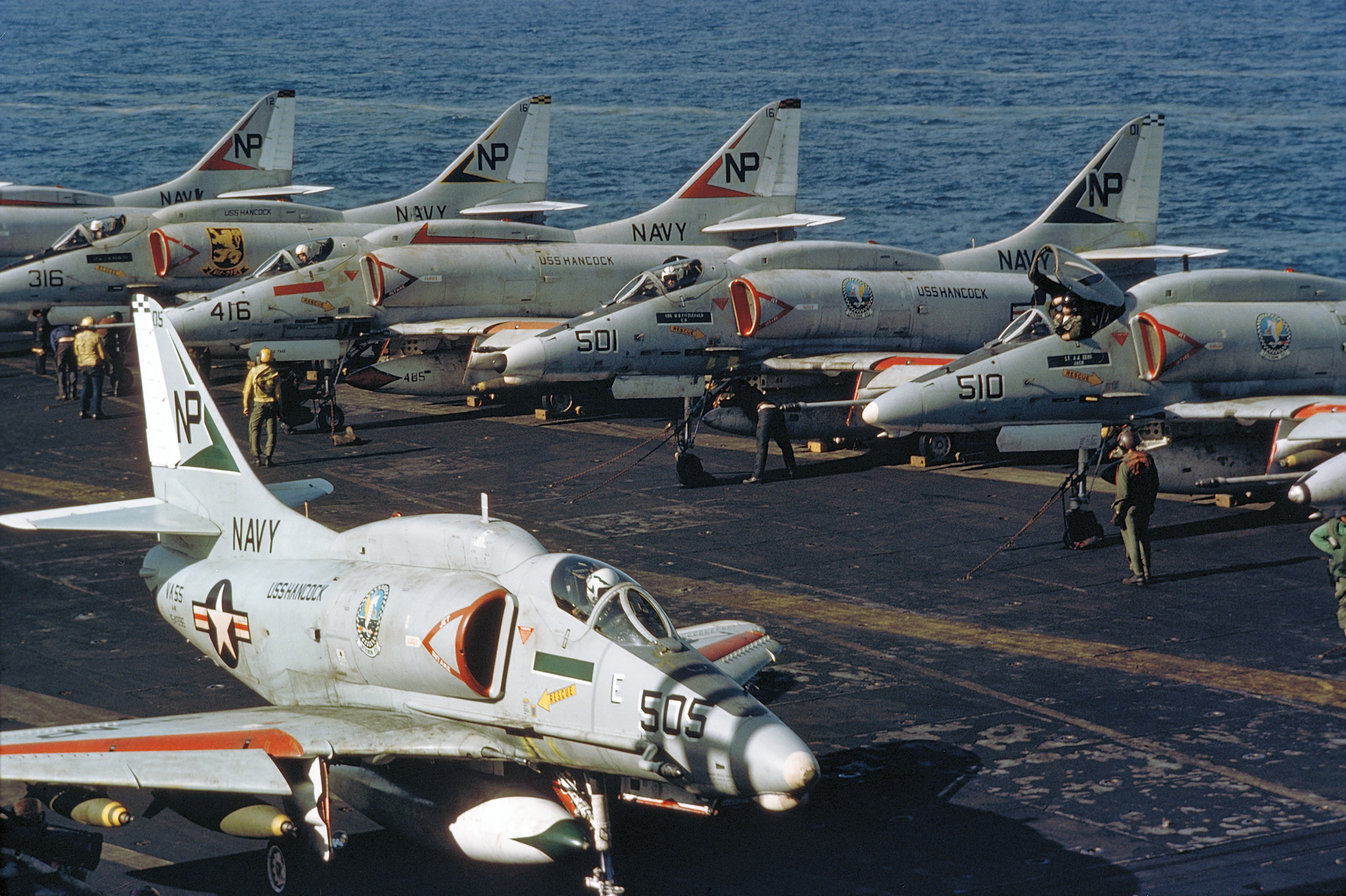 U.S. Navy Douglas A-4F Skyhawk of Attack Carrier Air Wing 21 (CVW-21) are parked on the flight deck of the attack aircraft carrier USS Hancock (CVA-19), armed for a mission over Vietnam on 25 May 1972. Skyhawks NP-501 (BuNo 155046), -505 (BuNo 154996), and -510 were assigned to Attack Squadron 55 (VA-55) "Warhorses", NP-316 to VA-212 "Rampant Raiders", NP-412 and NP-416 to VA-164 "Ghost Riders". The aircraft are armed with Mk 82 (500 lb/227 kg) and Mk 83 (1000 lb/454 kg) bombs. CVW-21 was assigned to the Hancock for a deployment to Vietnam from 7 January to 3 October 1972.